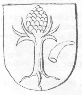 Drawing of coat of arms of town Chorzele by Marian Gumowski